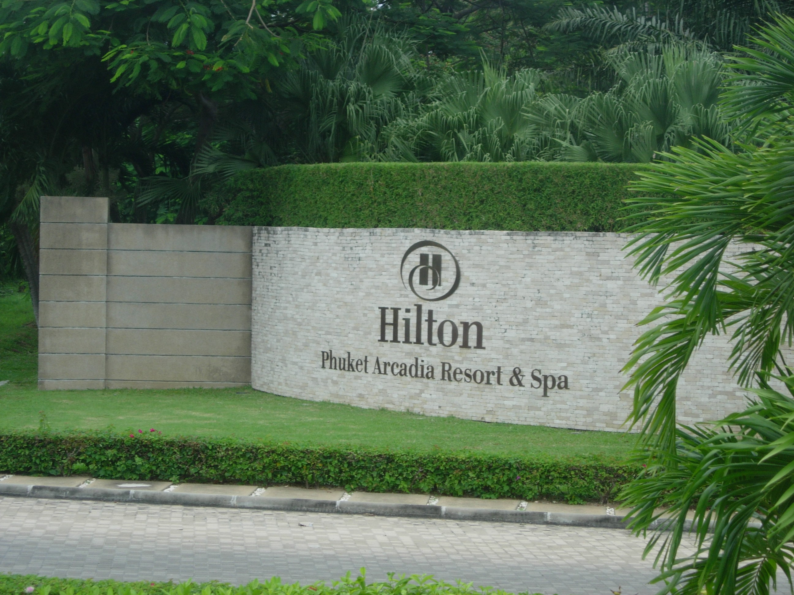 Hilton Phuket Arcadia Resort &SPA